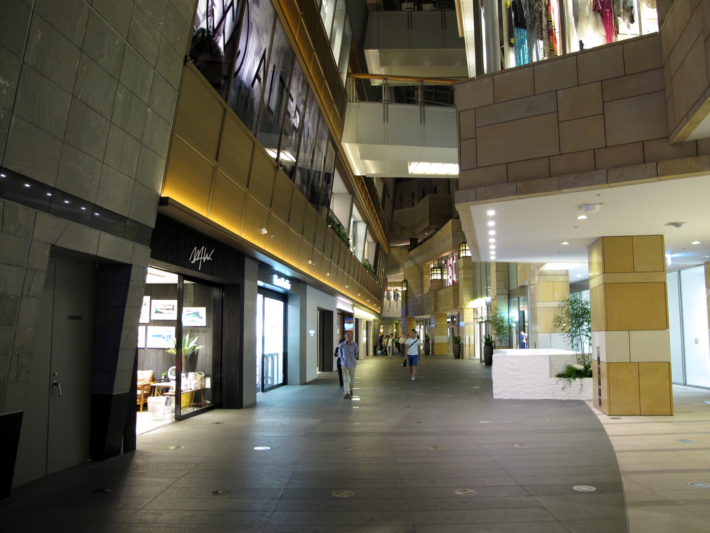 Roppongi Hills West Walk Shopping Arcade